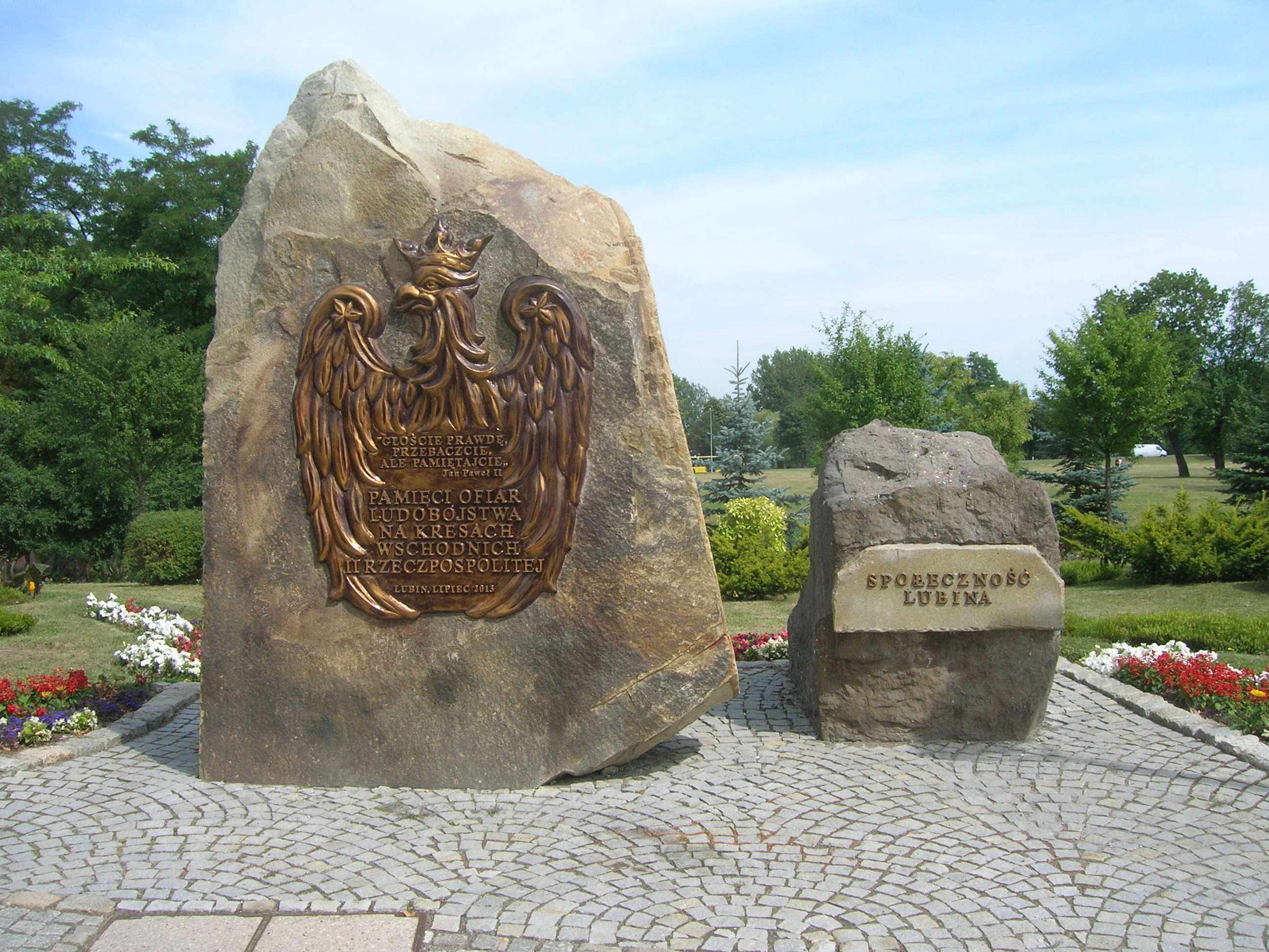 Memorial monument of genocide in Kresy Wschodnie in Lubin